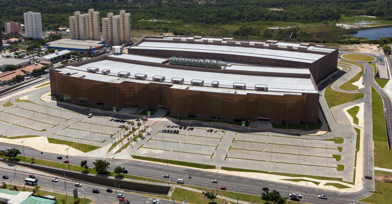 Ceará Events Centre